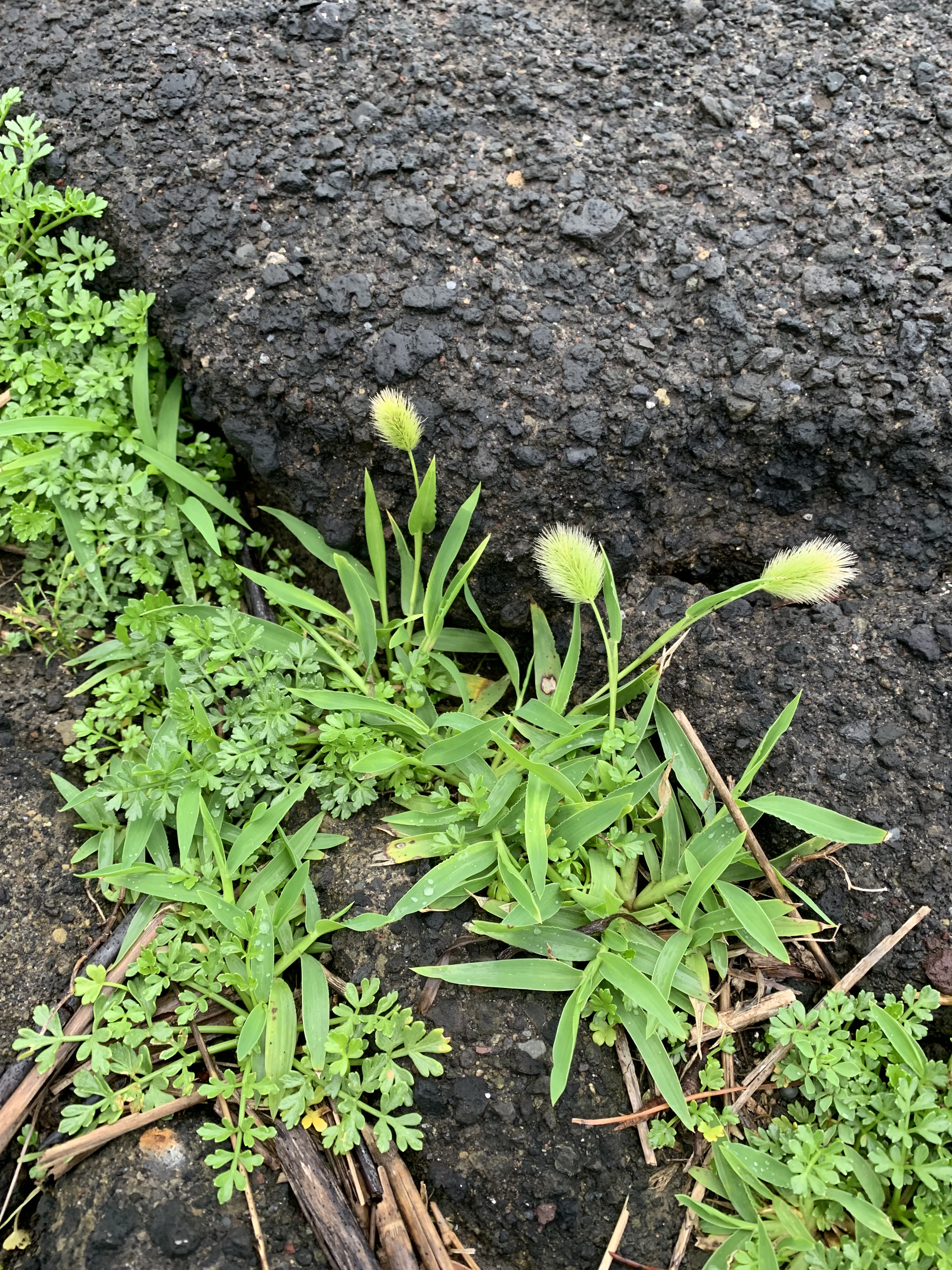 Setaria viridis var. pachystachys in a beach in Miura city, Kanagawa prefecture, Japan